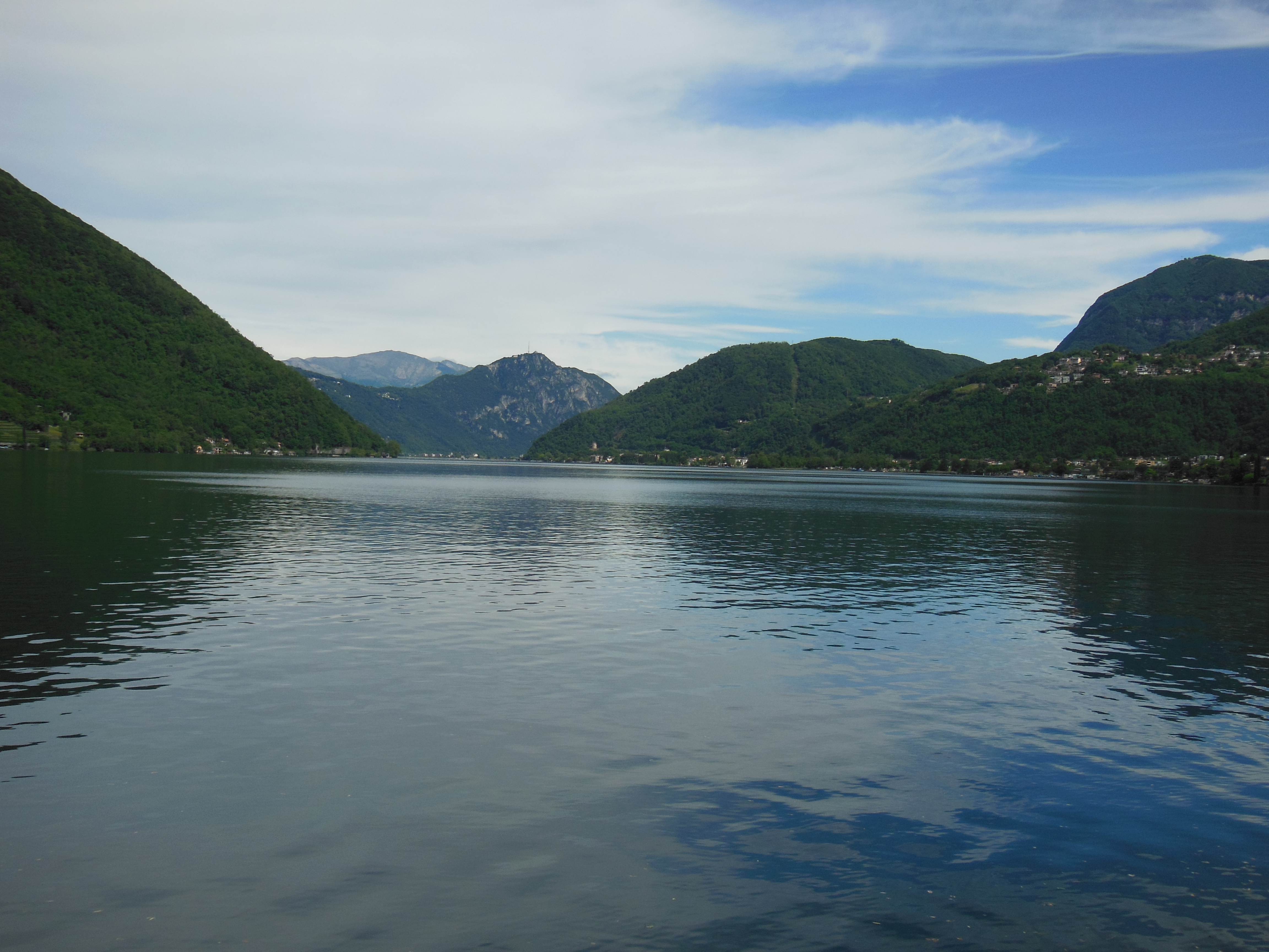 View of Monte San Salvatore from Capolago Lago along Lake Lugano. For more information, see Wikipedia articles Monte San Salvatore, Capolago and Lake Lugano.